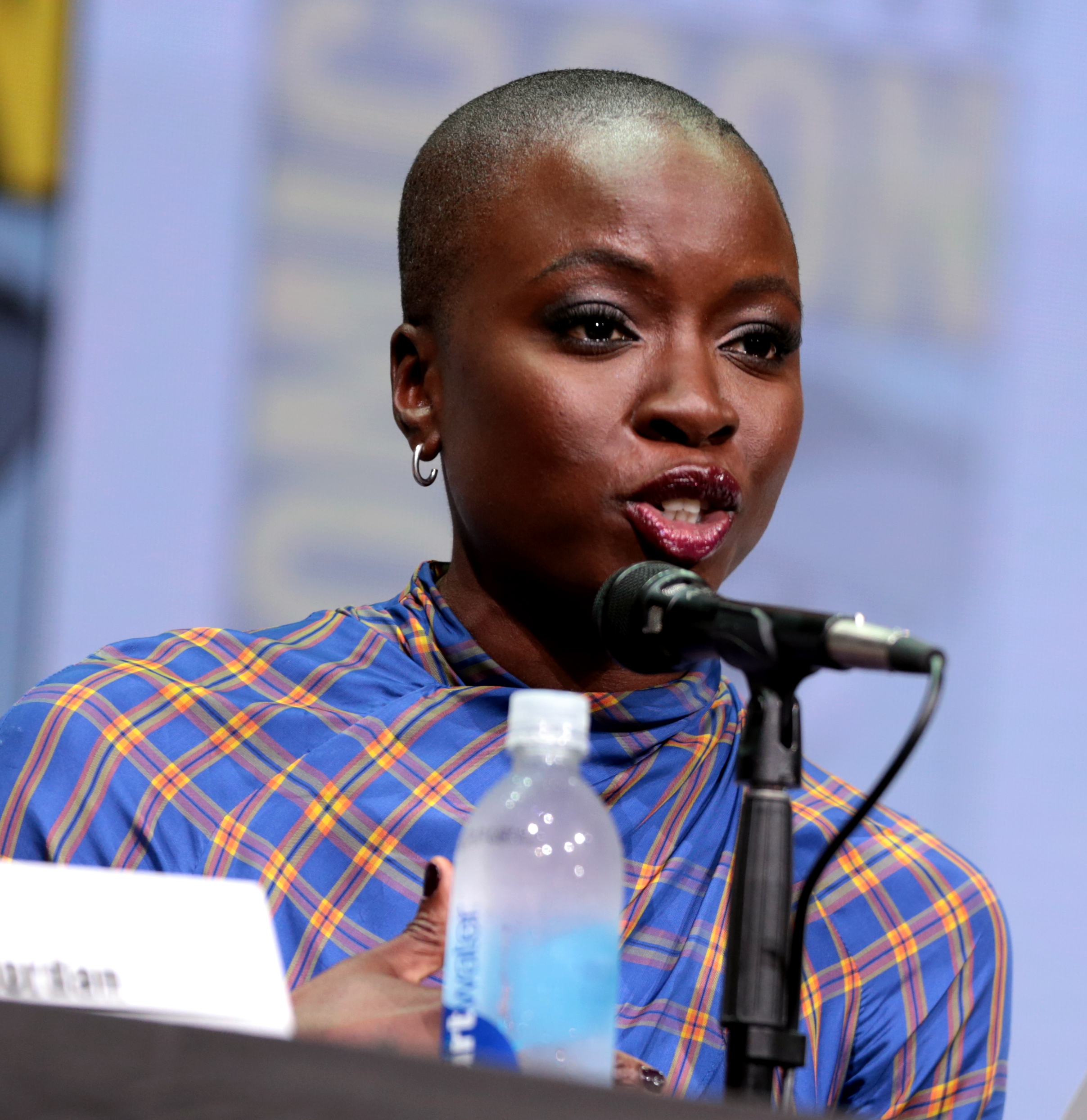 Danai Gurira & Letitia Wright at SDCC in 2017.